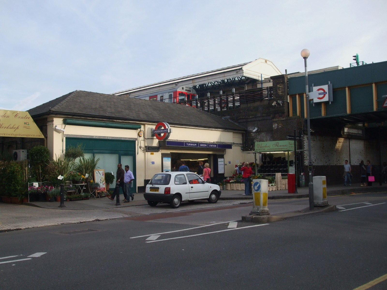 Turnham Green tube station